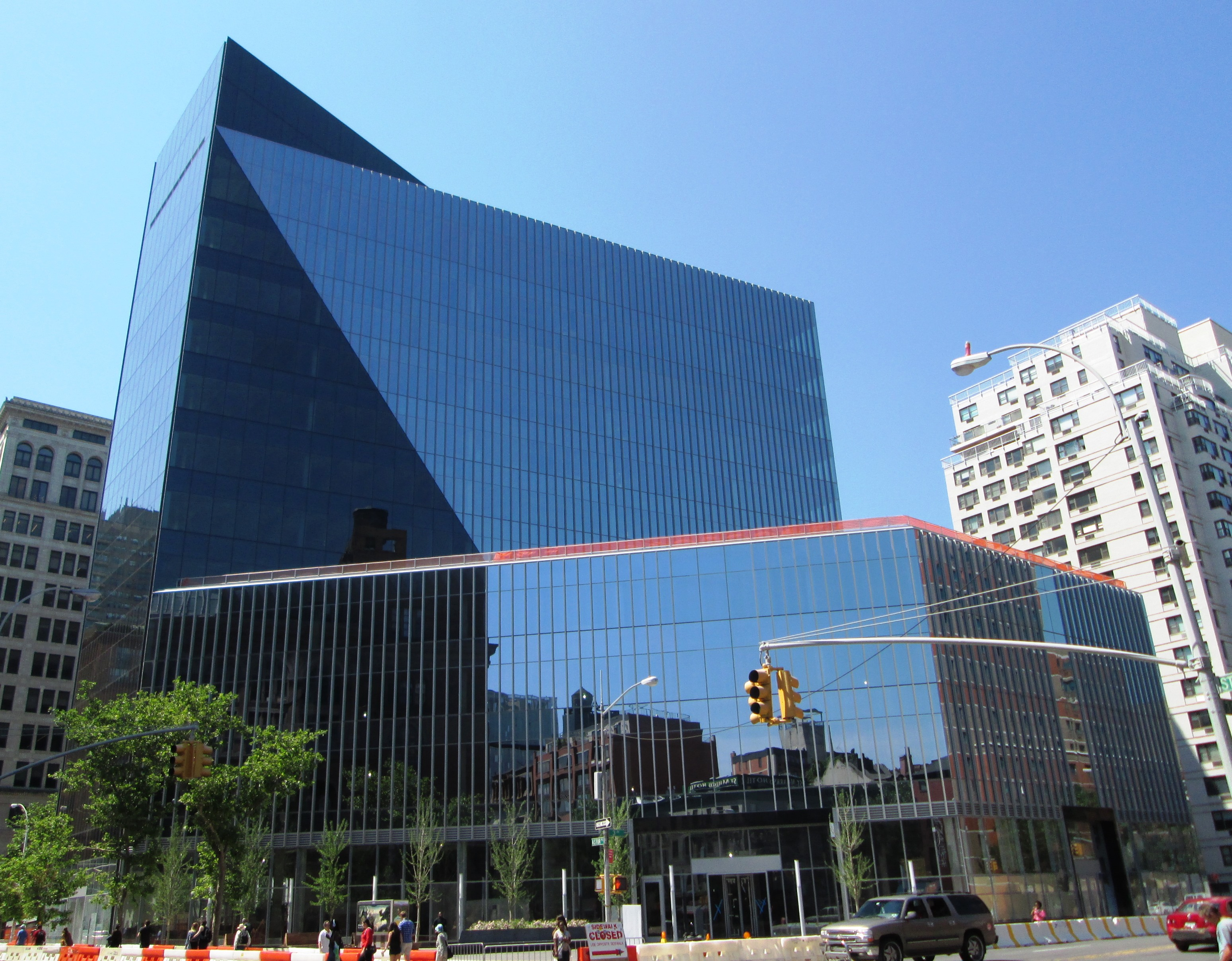 51 Astor Place, an office tower located between Astor Place and East 9th Street and between 3rd and 4th Avenues in the East Village neighborhood of Manhattan, New York City, was built in 2013 and was designed by Fumihiko Maki. It is across the street from the Cooper Union Foundation Building. (Source: Building website)